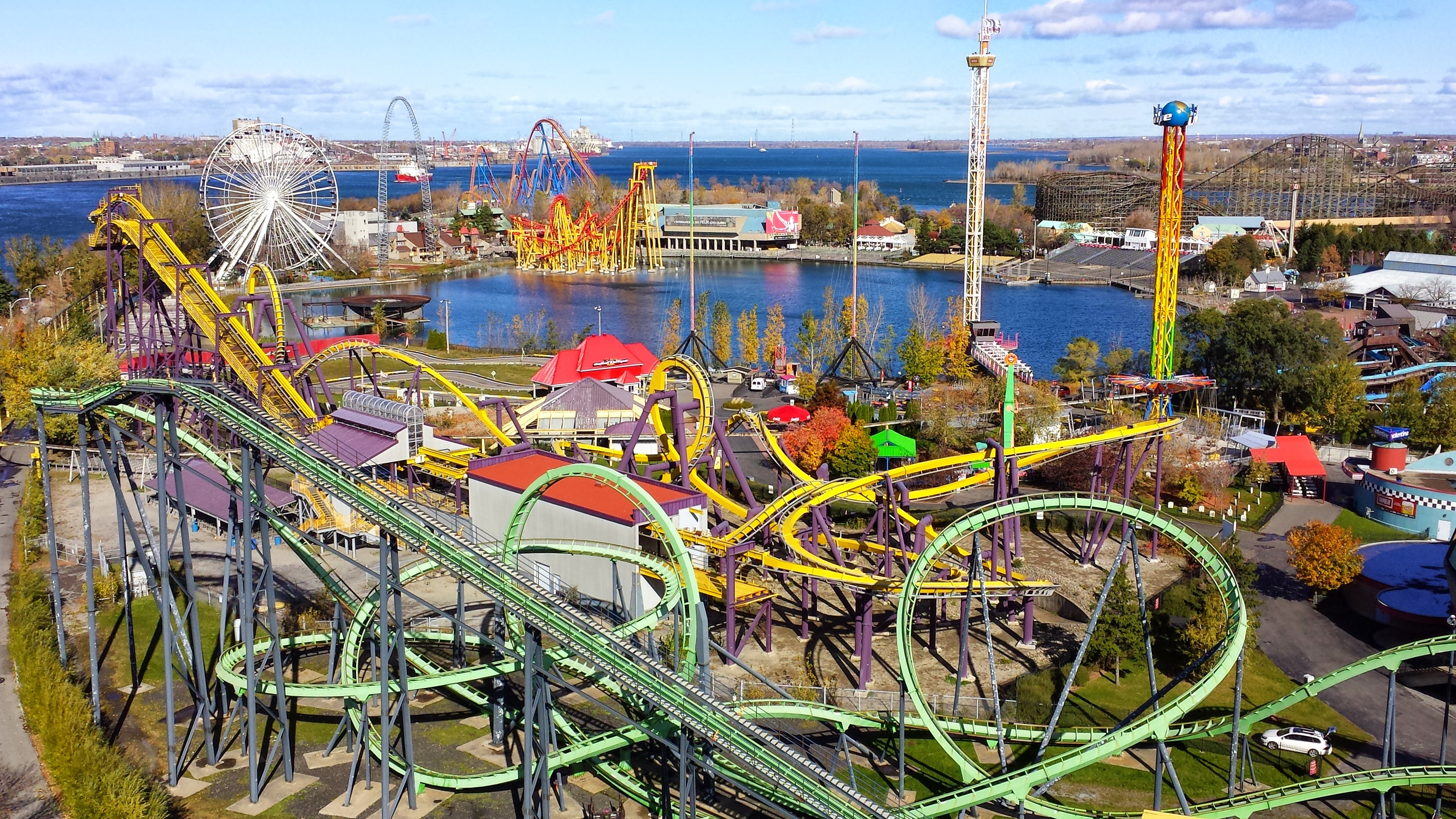 Amusement park Six Flags La Ronde in Montreal seen from Jacques Cartier Bridge